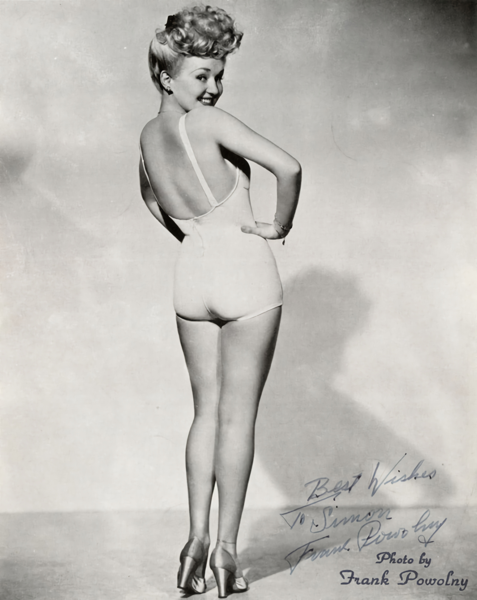 Studio portrait photo of Betty Grable taken for promotional use.